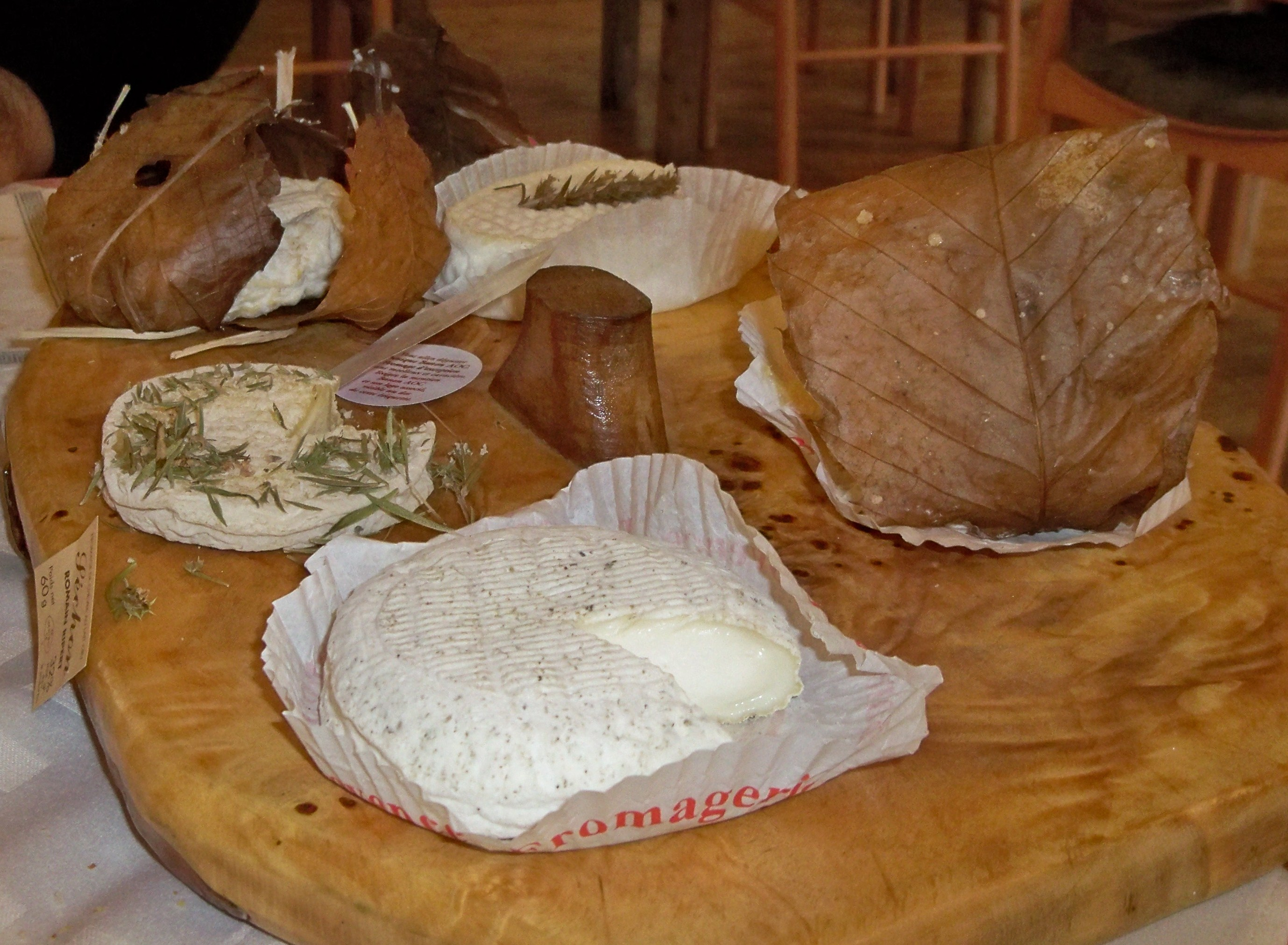 various cheeses from Banon (Alpes de Haute Provence, France)